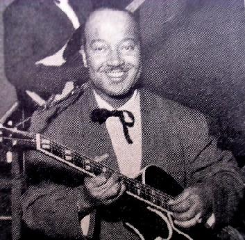 American jazz guitarist Billy Mackel in Sweden 1953. This photo taken while on tour with Lionel Hampton. Published in Estrad magazine, October 1953.